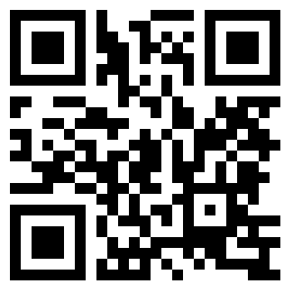 QR code depicting the QR code url for the article on the English Wikipedia.